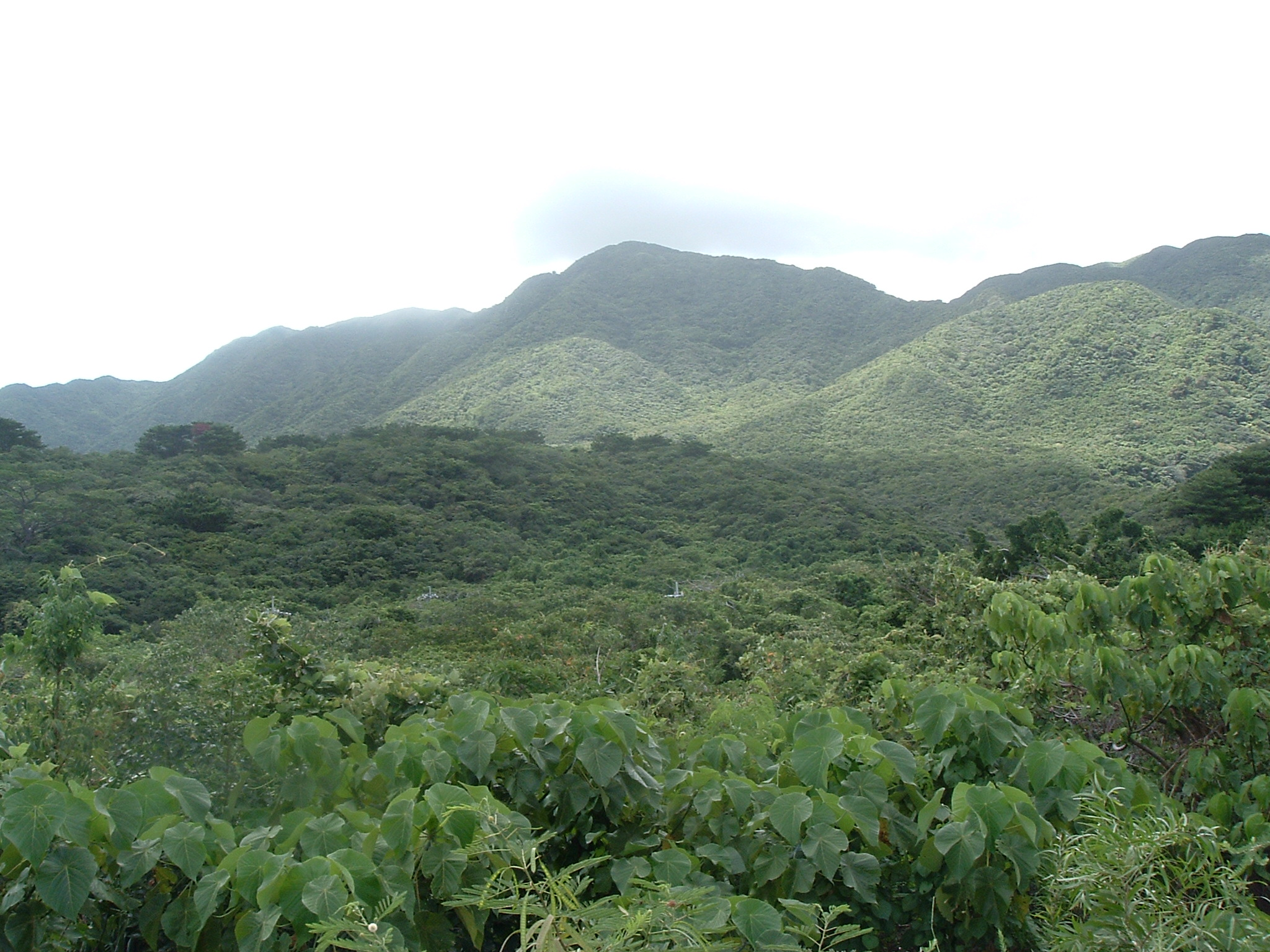 Mt.Komidake